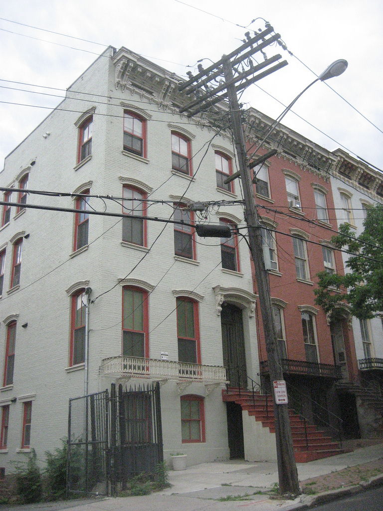 "Average block" of Mansion District, Albany, NY, USA